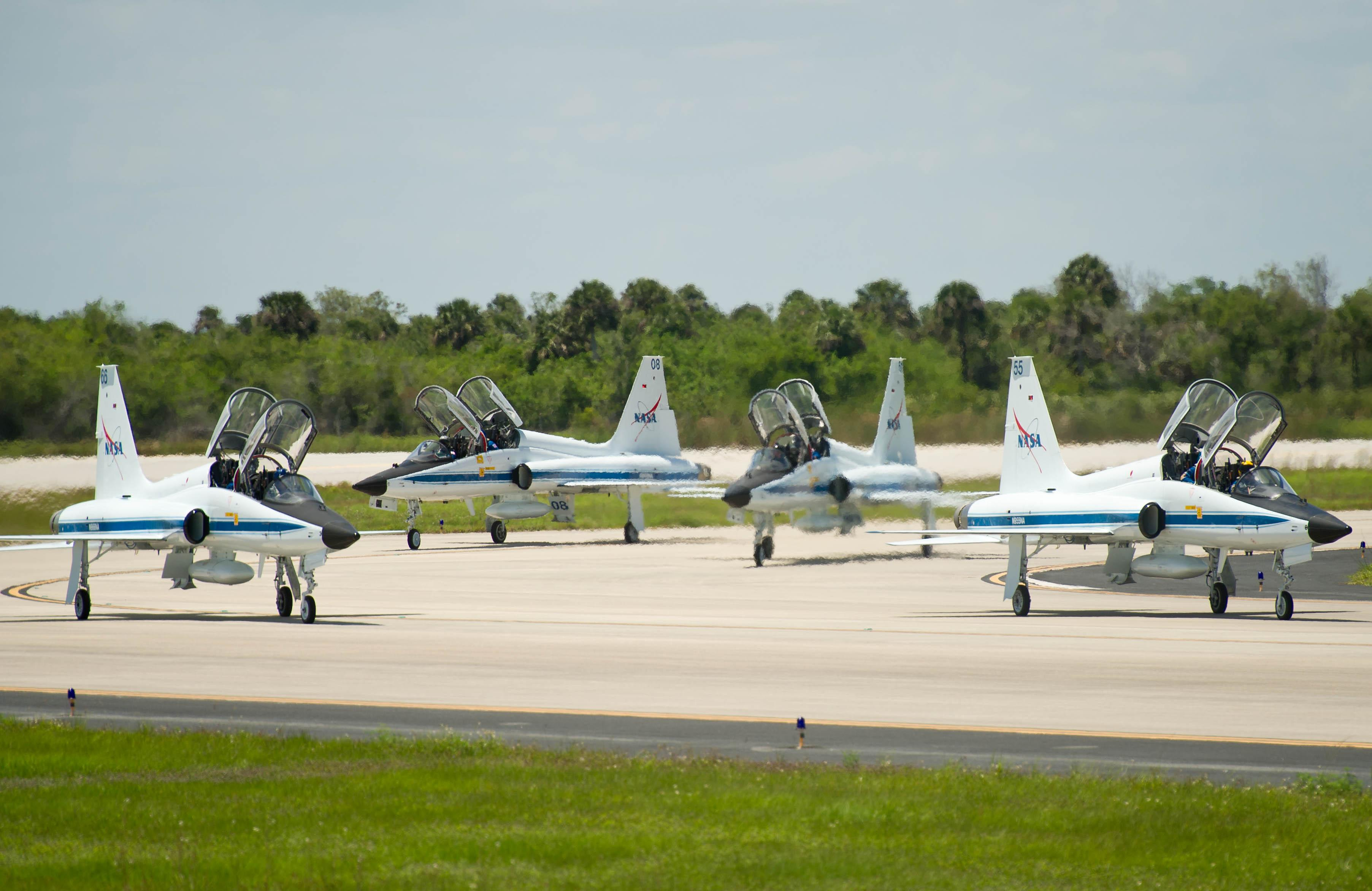 The STS-134 crew arrived in T-38 jets at the NASA Kennedy Space Center Shuttle Landing Facility in Cape Canaveral, Fla.